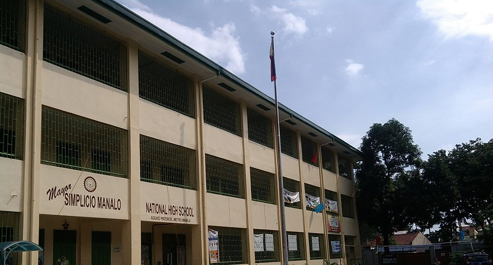 School Building